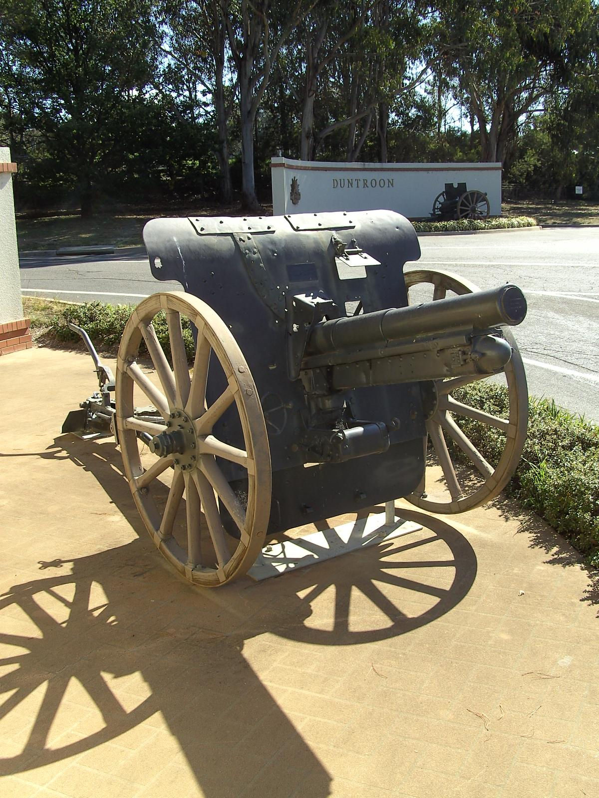 "The Gun Gate Entrance", Royal Military College, Canberra. Foreground: Turkish Army 78mm, World War I; Background, German Army 77mm, World War I.